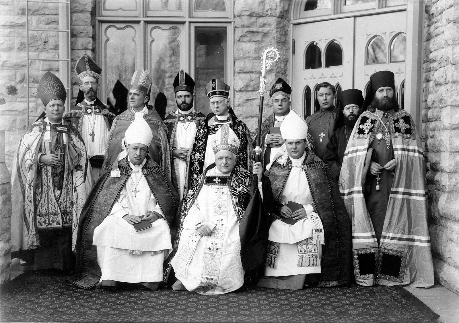 The consecration of Reginald Heber Weller as an Anglican bishop at the Cathedral of St. Paul the Apostle in the Protestant Episcopal Diocese of Fond du Lac. Seated (left to right): The Rt. Rev. Isaac Lea Nicholson, Episcopal Bishop of Milwaukee; Rt. Rev. Charles Chapman Grafton, Episcopal Bishop of Fond du Lac; Rt. Rev. Charles P. Anderson, Episcopal Bishop Coadjutor of Chicago. Standing (left to right): Rt. Rev. Anthony Kozłowski of the Polish National Catholic Church; Rt. Rev. G. M. Williams, Episcopal Bishop of Marquette; Rt. Rev. Reginald Weller, Rt. Rev. Joseph M. Francis, Episcopal Bishop of Indianapolis, Rt. Rev. William E. McLaren, Episcopal Bishop of Chicago; Rt. Rev. Arthur L. Williams, Episcopal Bishop Coadjutor of Nebraska; St. John Kochurov, Russian Orthodox protomartyr of the Bolshevik Revolution; St. Sebastian (Dabovich) St. Bishop Tikhon (Bellavin) of Alaska and the Aleutian Islands.